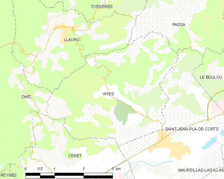 Map of French municipality